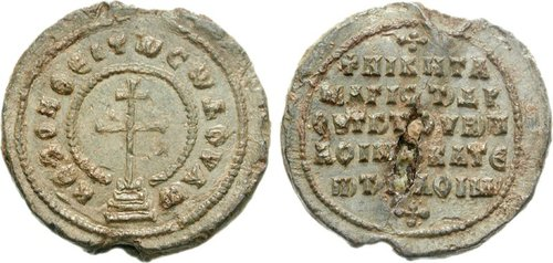 Niketas. Magistros, and drungarios and katepano of the imperial Ploimon, mid to late 9th century. PB Seal (24mm, 9.96 g, 1h). KE BOHΘEI TW CW DOVΛW, patriarchal cross on four steps / +NIKHTA / MAΓICT ΔΡ/(O)VΓΓ’ TOV B’ Π/ΛOIM[OV] KATE/Π’ T[...]ΛOIM in five lines; crosses above and below. Cf. BLS I 2253 and 2258(seal of same person); DOCBS -; Seyrig -; Vatican -; Orghidan -; Jordanov -. Good VF, tan patina, some suspension damage.